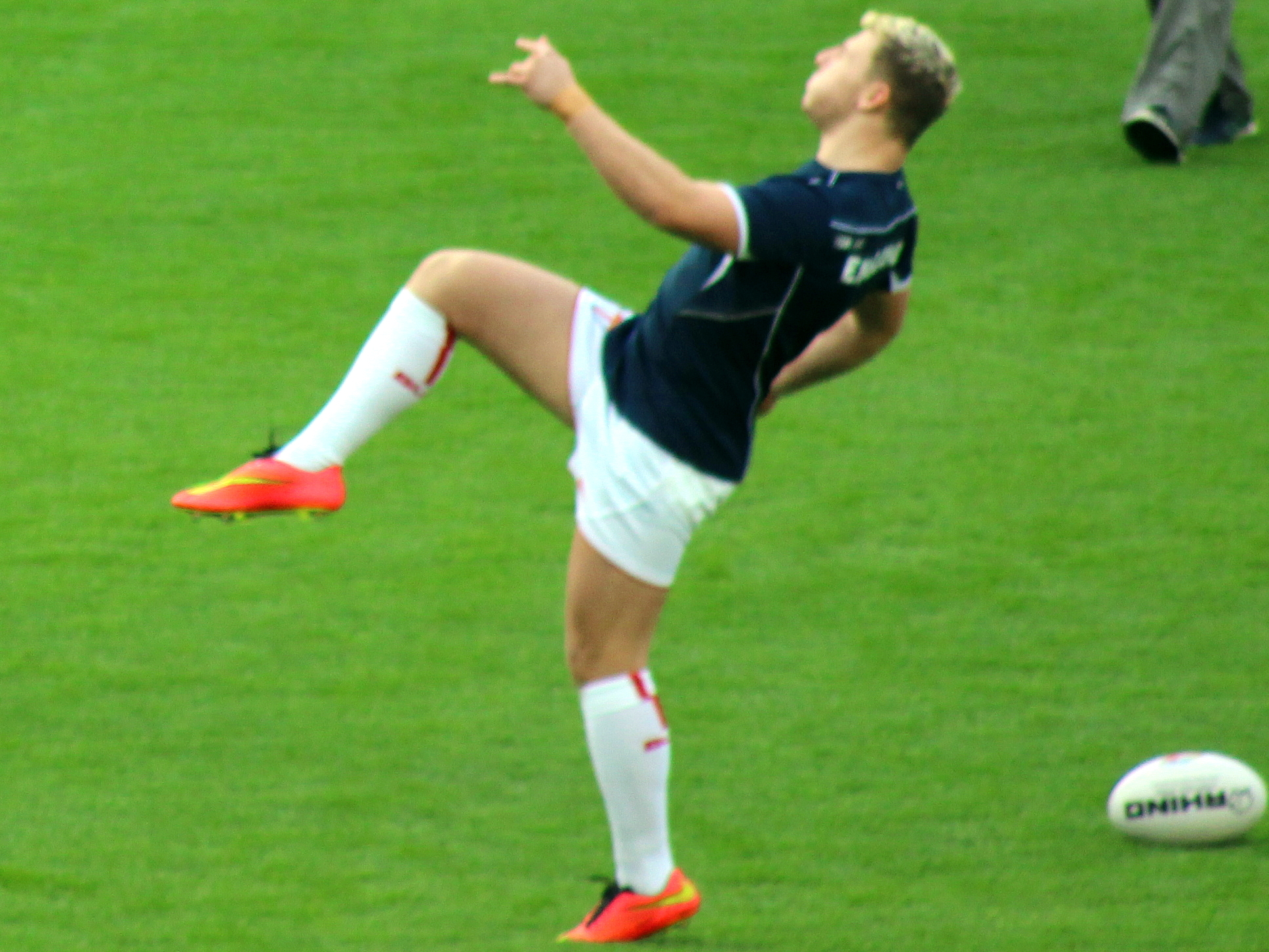 Gareth Widdop